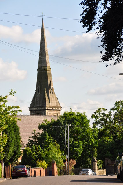 St. John's Church, Horninglow, from the Rolleston Road The spire on this Church was badly damaged as a result of the Fauld ( Hanbury ) explosion in November 1944. The evidence of the rebuilding of the top of the spire is still apparent.